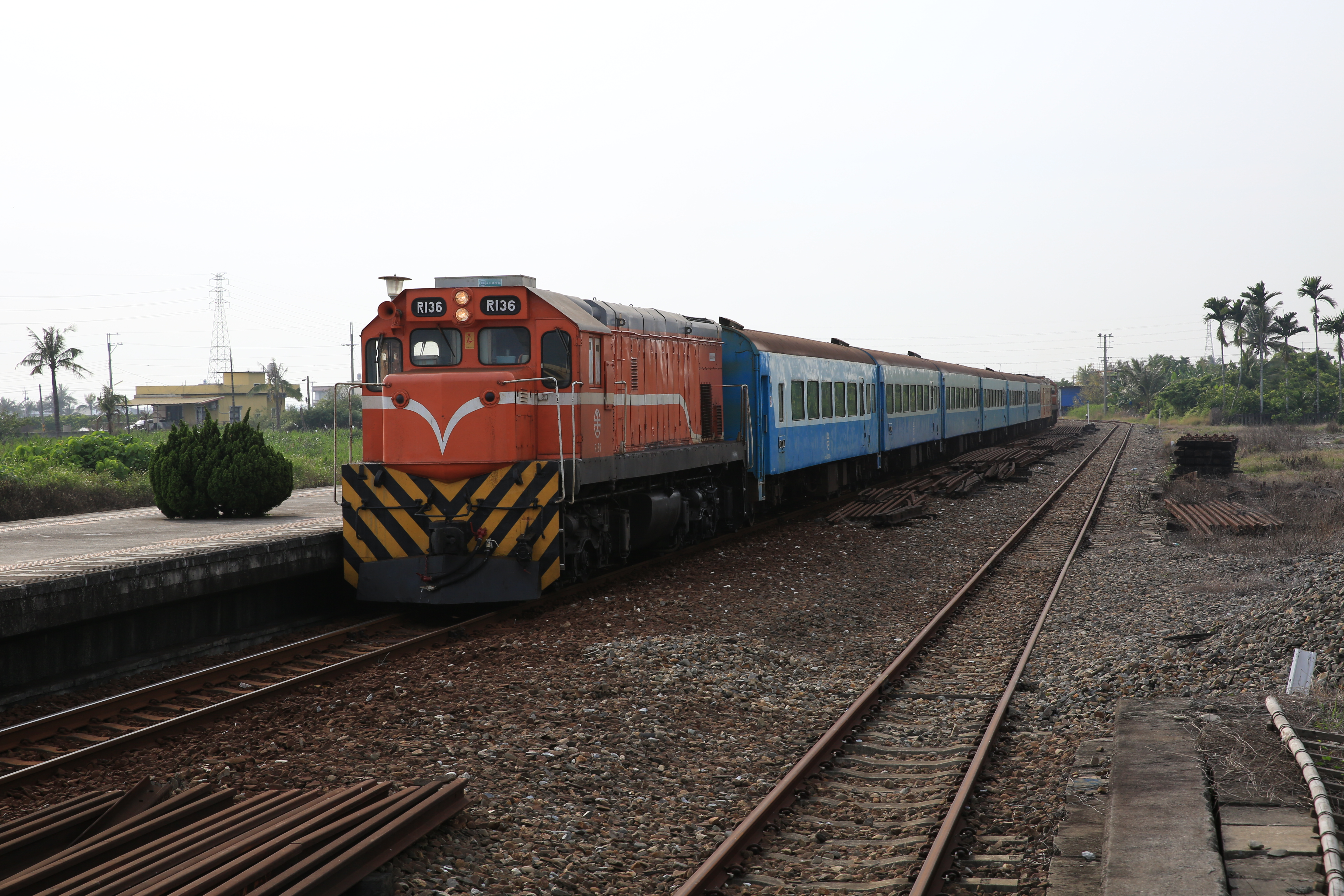 Twin-Head local train in TRA Pingtung Line